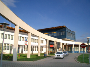 District authorities in Brucku an der Leitha.